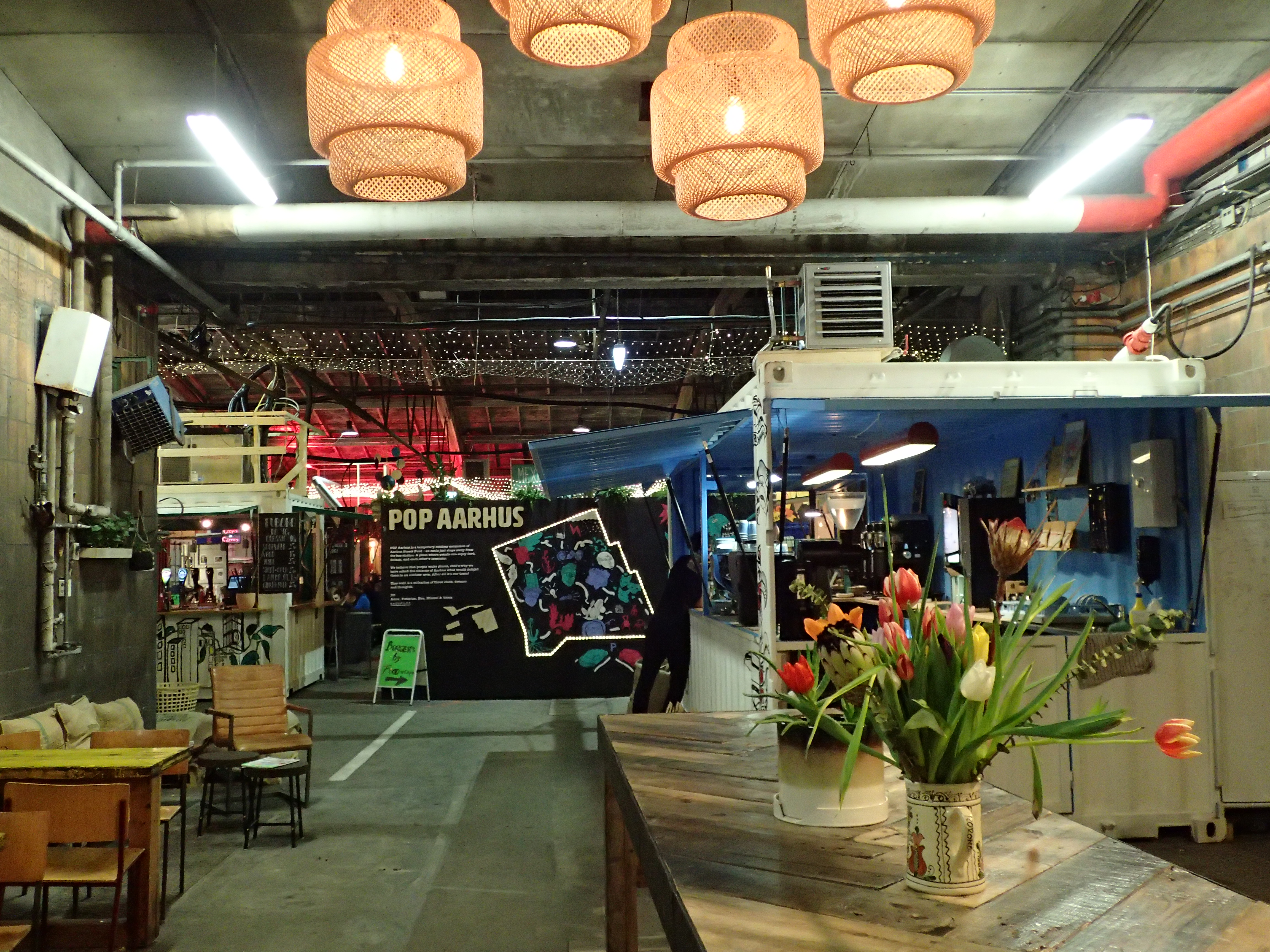 Aarhus Street Food